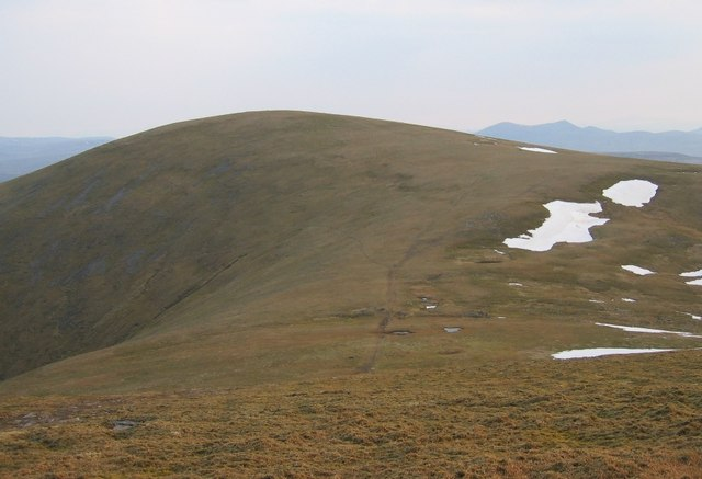 Tom a Choinnich. Looking north over the bealach that splits Ton Choinnich from Ben Wyvis.